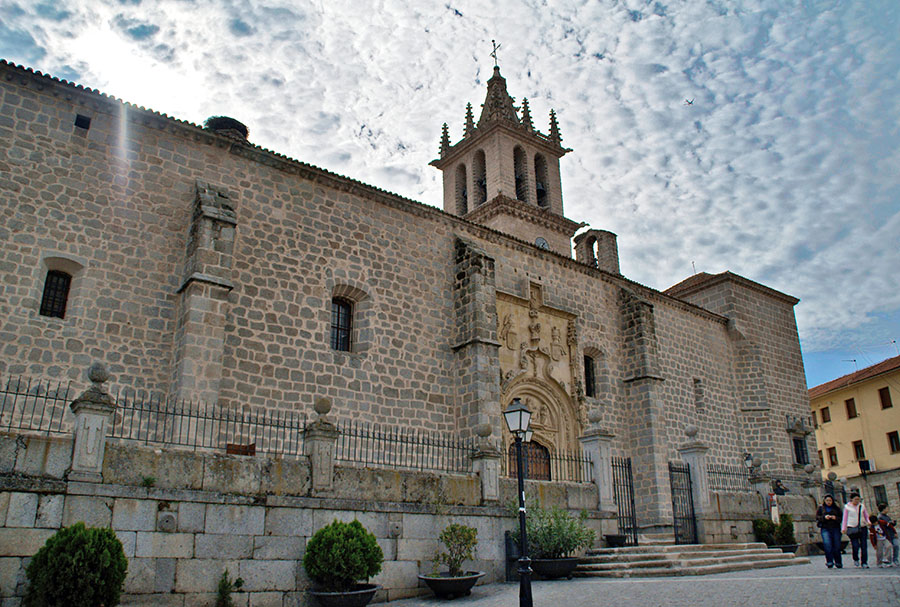 Basílica de la Asunción de Nuestra Señora.